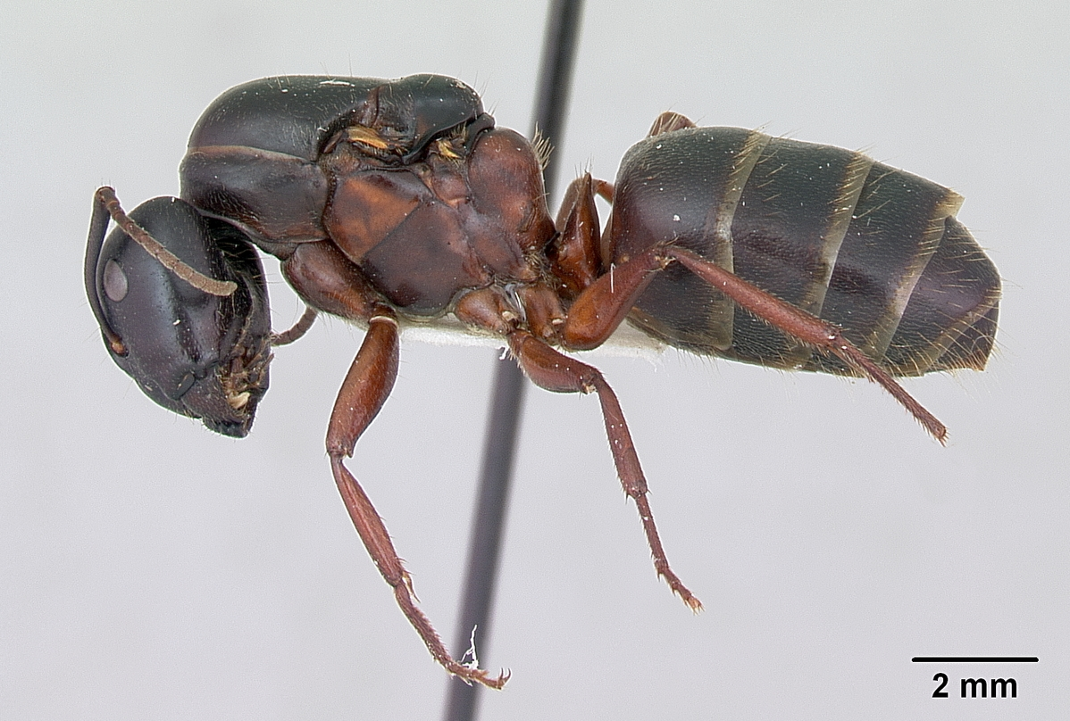 Profile view of ant Camponotus herculeanus specimen casent0103346.